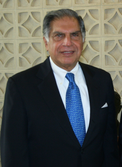 In the photo is Ratan Tata, who has been a leader in growing and expanding U.S.-India economic cooperation through his many business interests as CEO of the Tata Group, and as the co-chair of the U.S.-India CEO Forum.